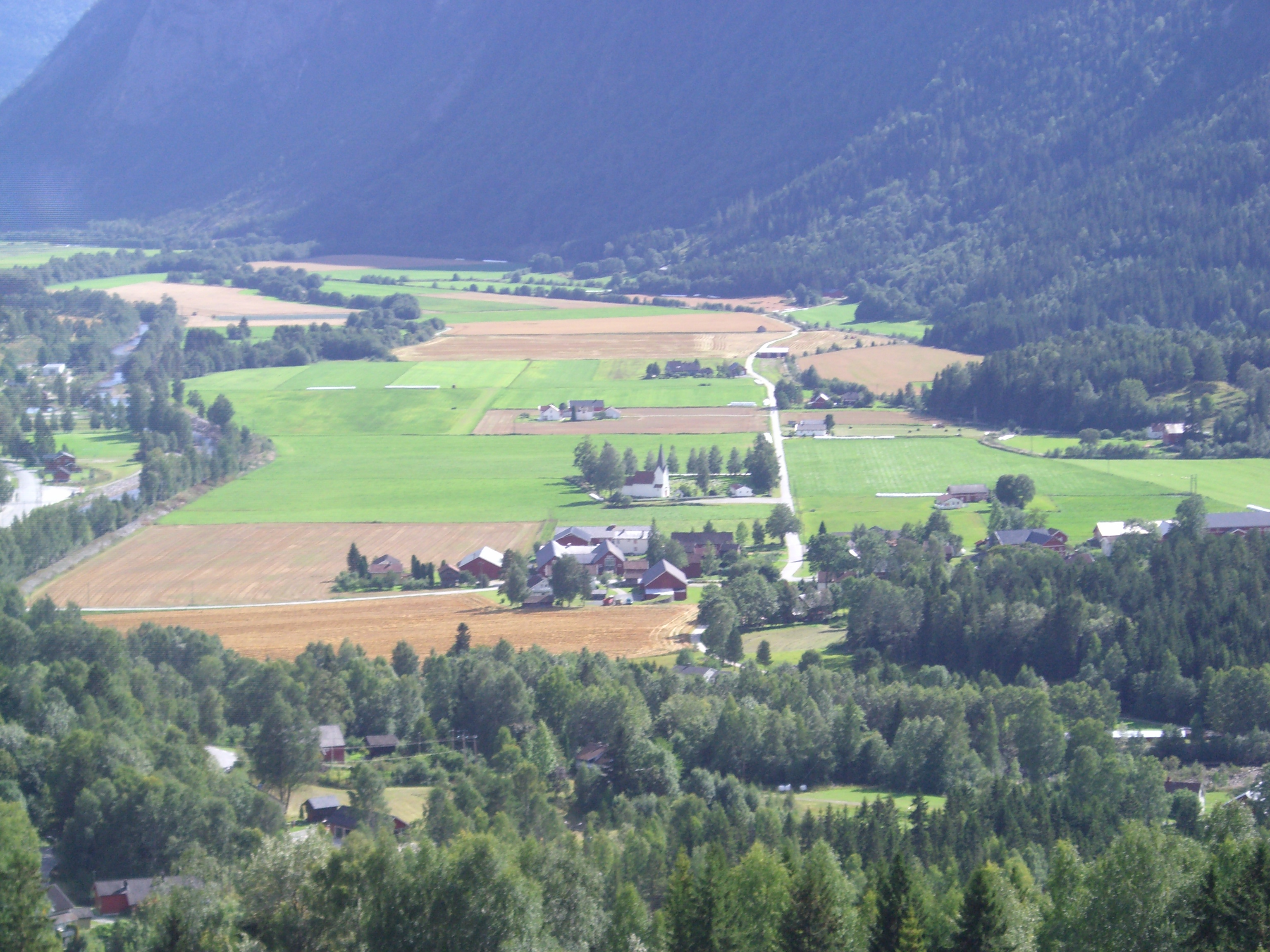 Flatdal